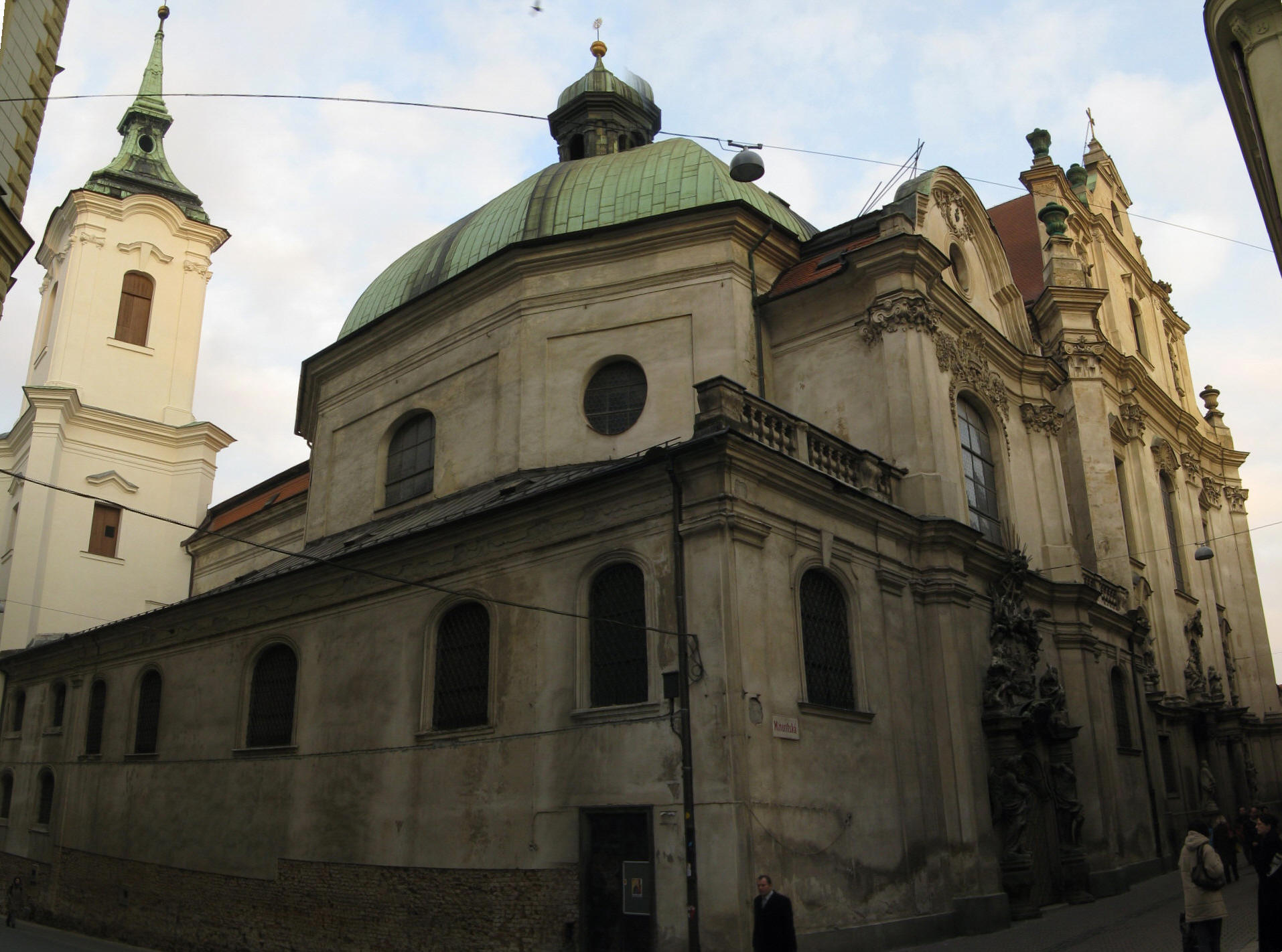 St. John the Baptist and John the Apostle Church and Loreto Chapel, Brno, Minoritská and Jánská Streets